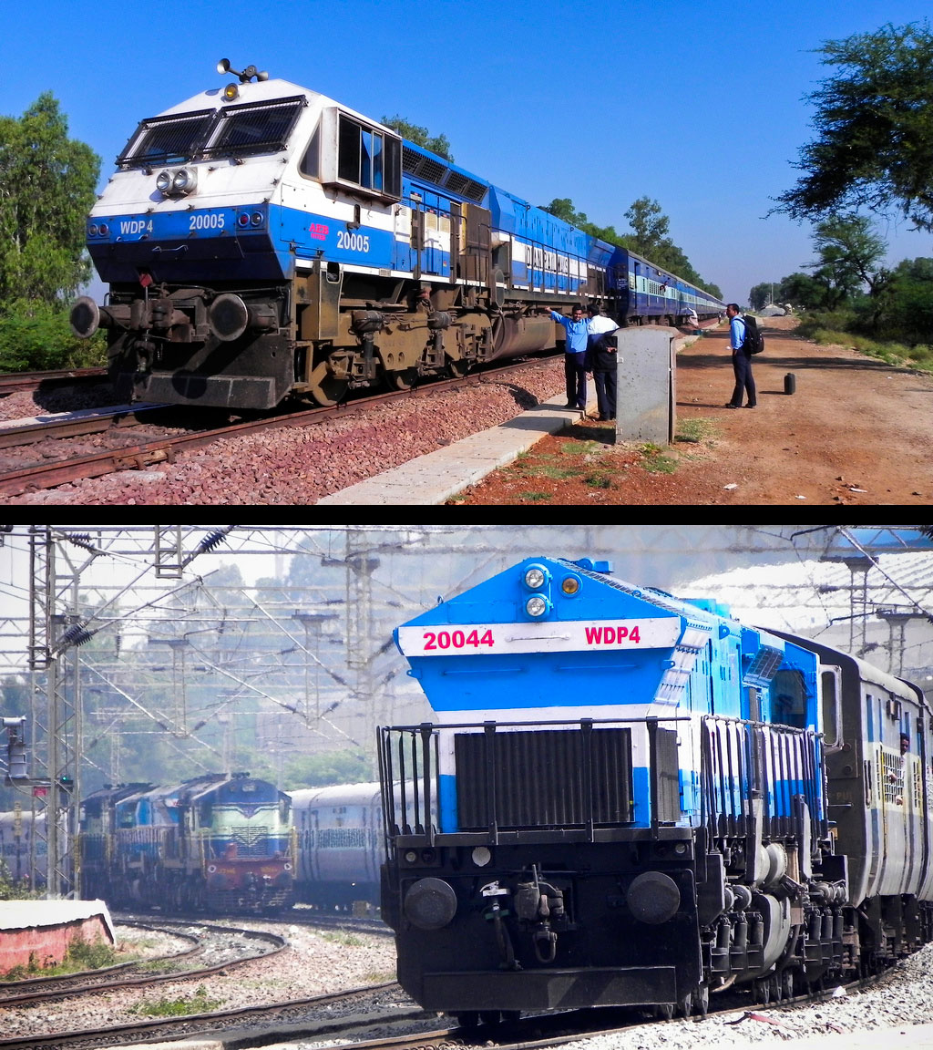 EMD GT46PAC - Indian Railways WDP4 Top: WDP4 20005 in Cab Forward (Homed at Hubli) Below: WDP4 20044 in Hood Forward (Homed at Krishnarajapuram)